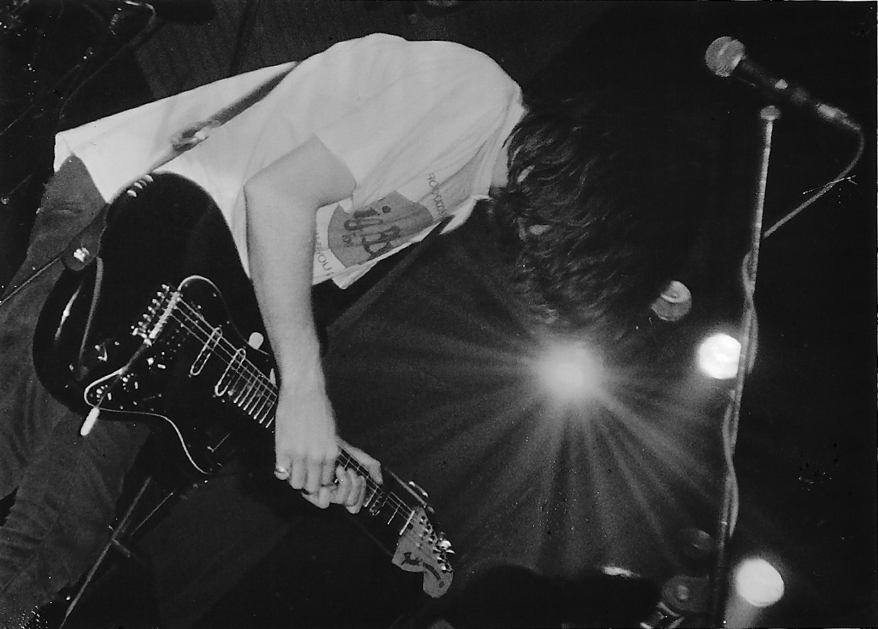 Loop, the Angel Centre, Tonbridge 1989 Photo set with World Domination Enterprises: Neate photos facebook page. More neate photos.